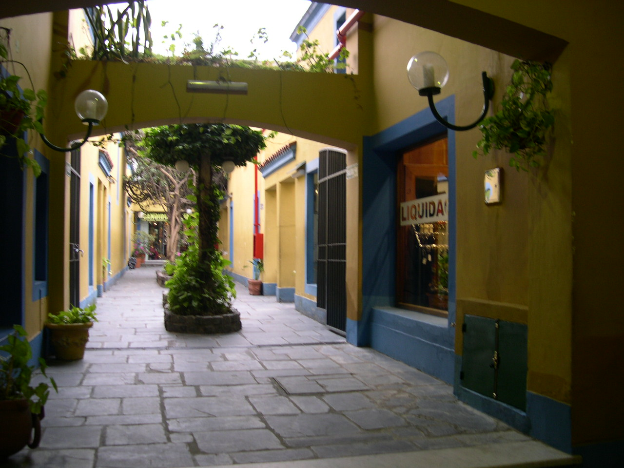 "El Solar de French" gallery in the San Telmo district, Buenos Aires, Argentina